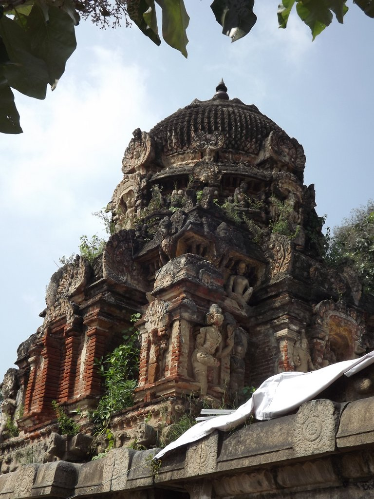 TEMPLE VIMANA